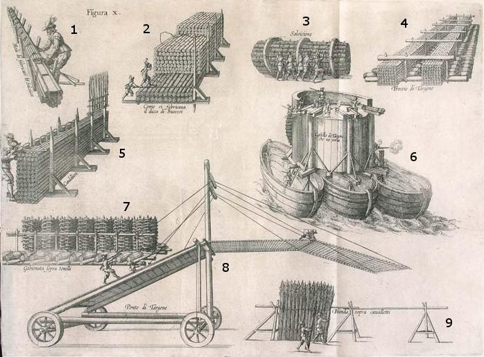 Pompeo Targone´s military works for the siege of Ostende, 1601–1604.